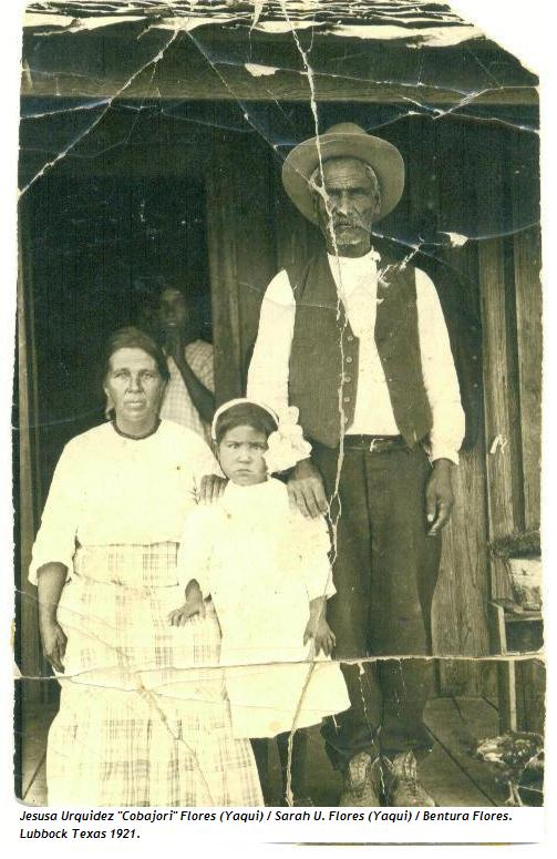 Yaqui Indians in Lubbock, Texas.